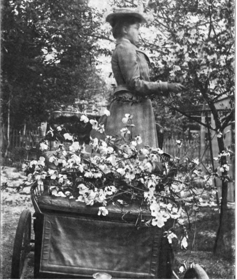 The writer and horticulturist Phebe Westcott Humphreys in her Rambler car, gathering botanical samples, in 1903